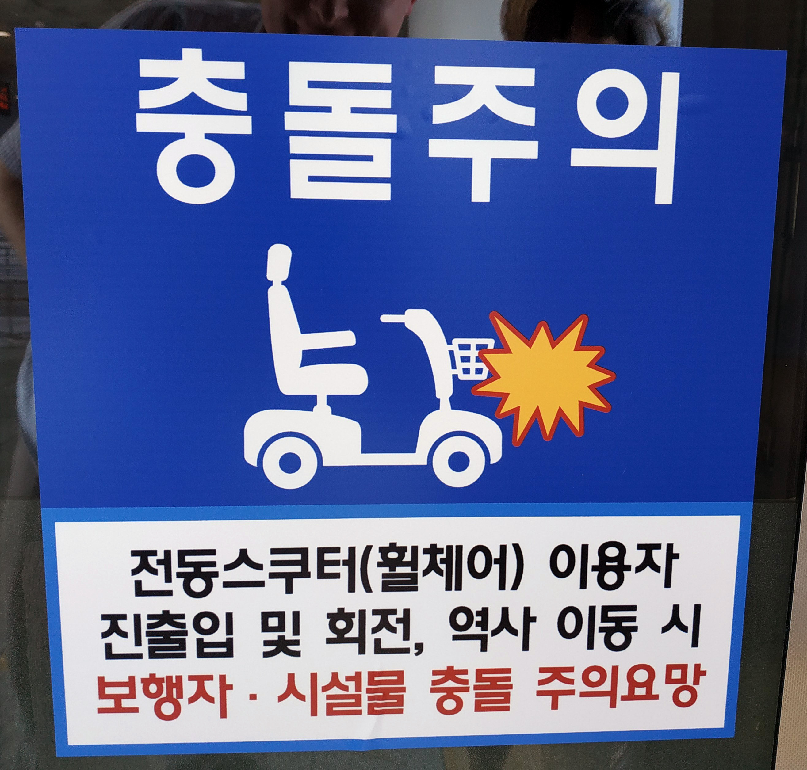 Sticker on an elevator in South Korea warning not to ram elevators. Directly introduced due to a fatal incident in Daejeon in 2010.